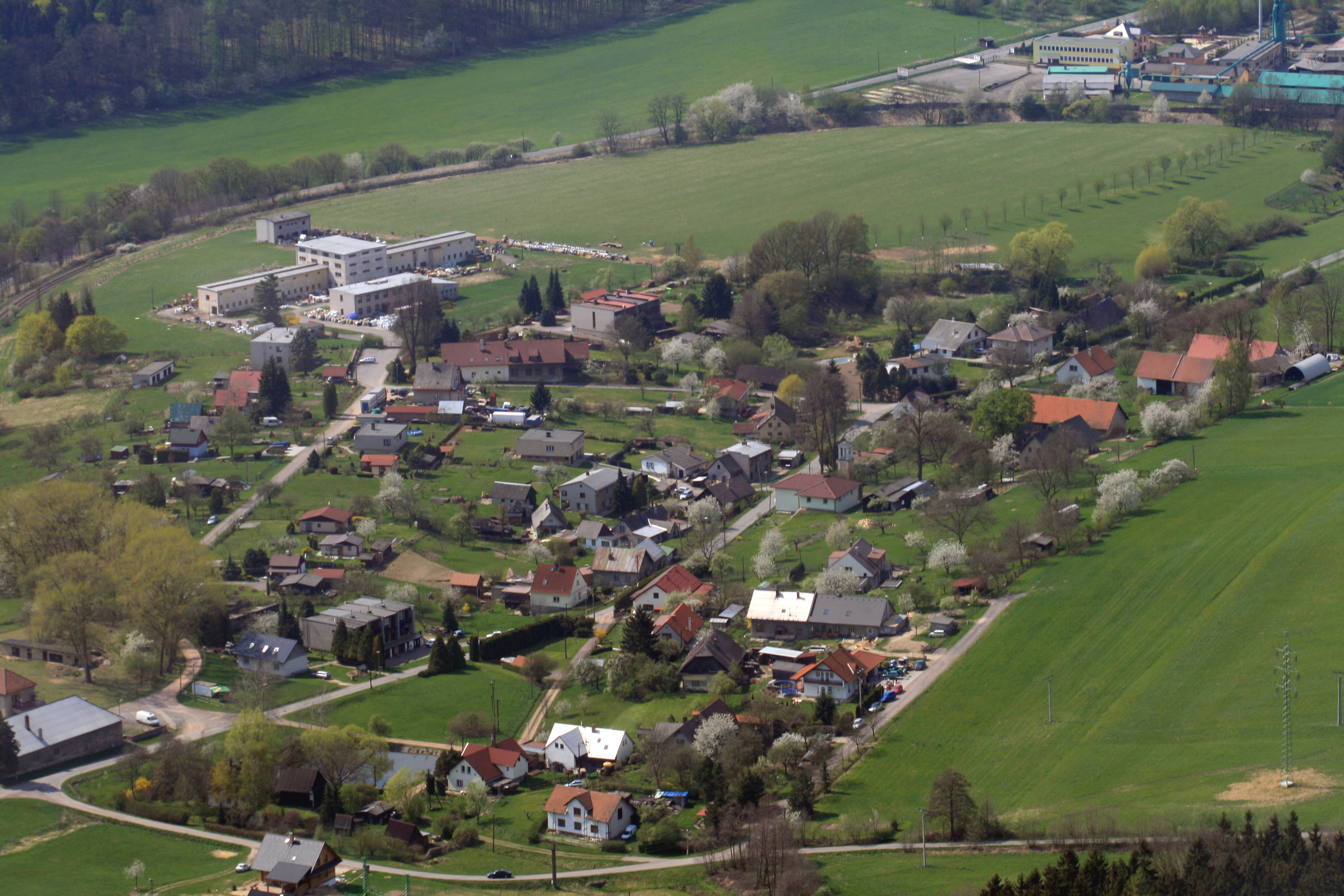 Village Brná, part of Potštejn from air, eastern Bohemia, Czech Republic